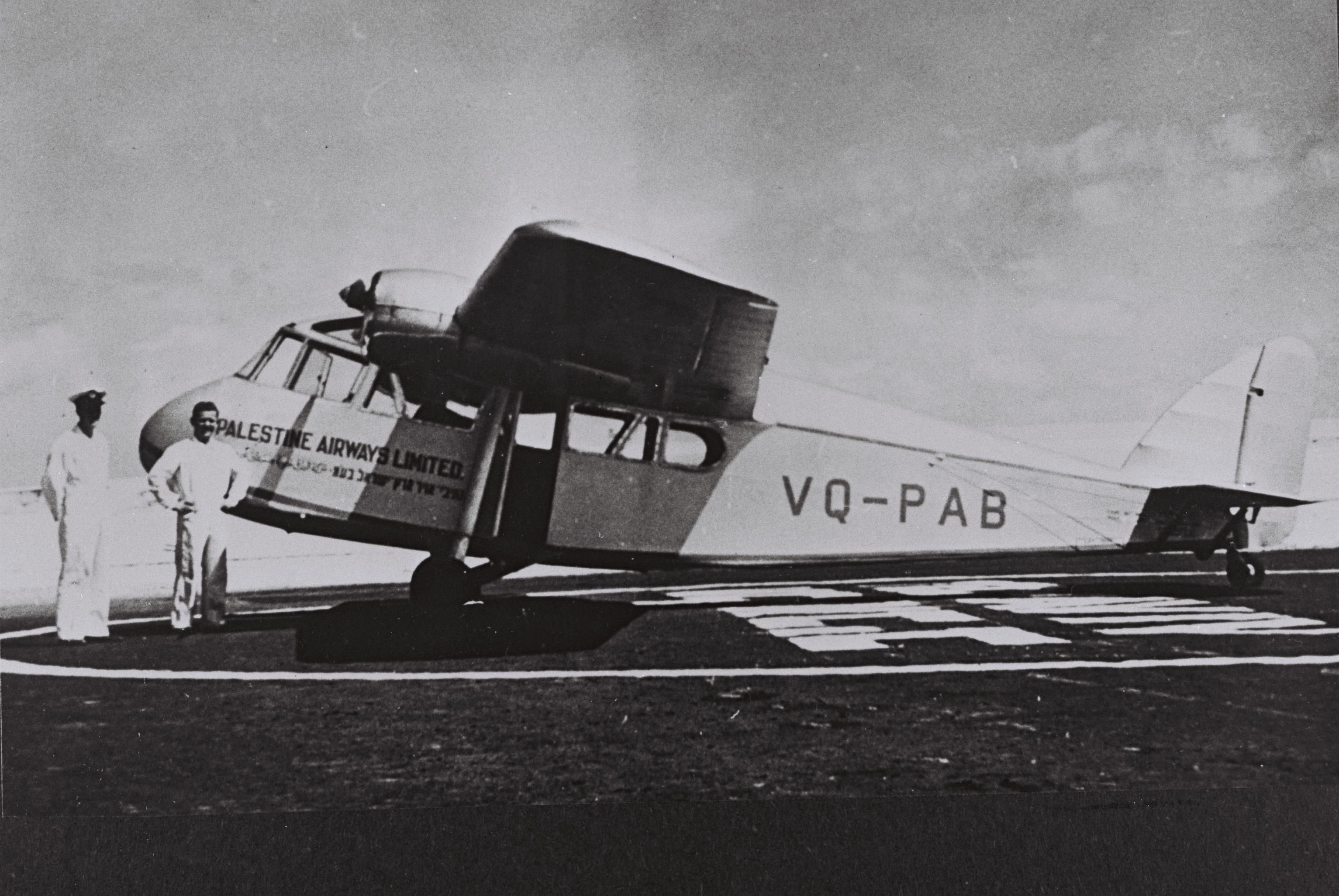 Palestine Airways Ltd Scion II; REgistration: VQ-PAB